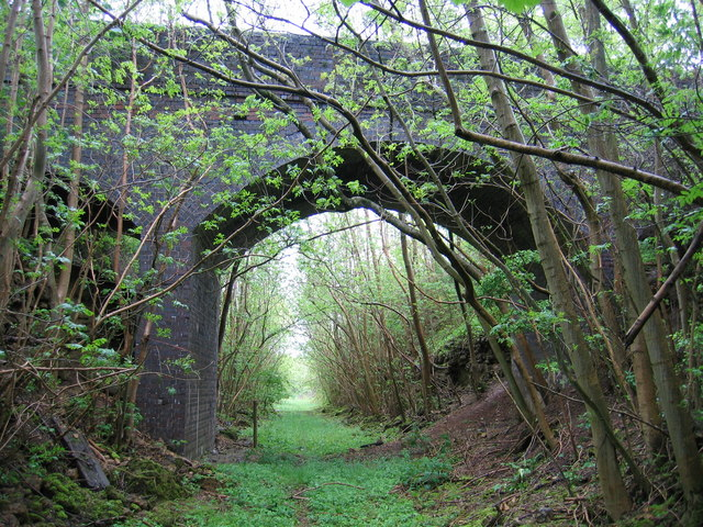 Railway Bridge over Notgrove Railway Cutting. This bridge crosses the dismantled Banbury and Cheltenham Direct Railway just west of Notgrove. It is now a Site of Special Scientific Interest because of the Jurassic limestones exposed here.